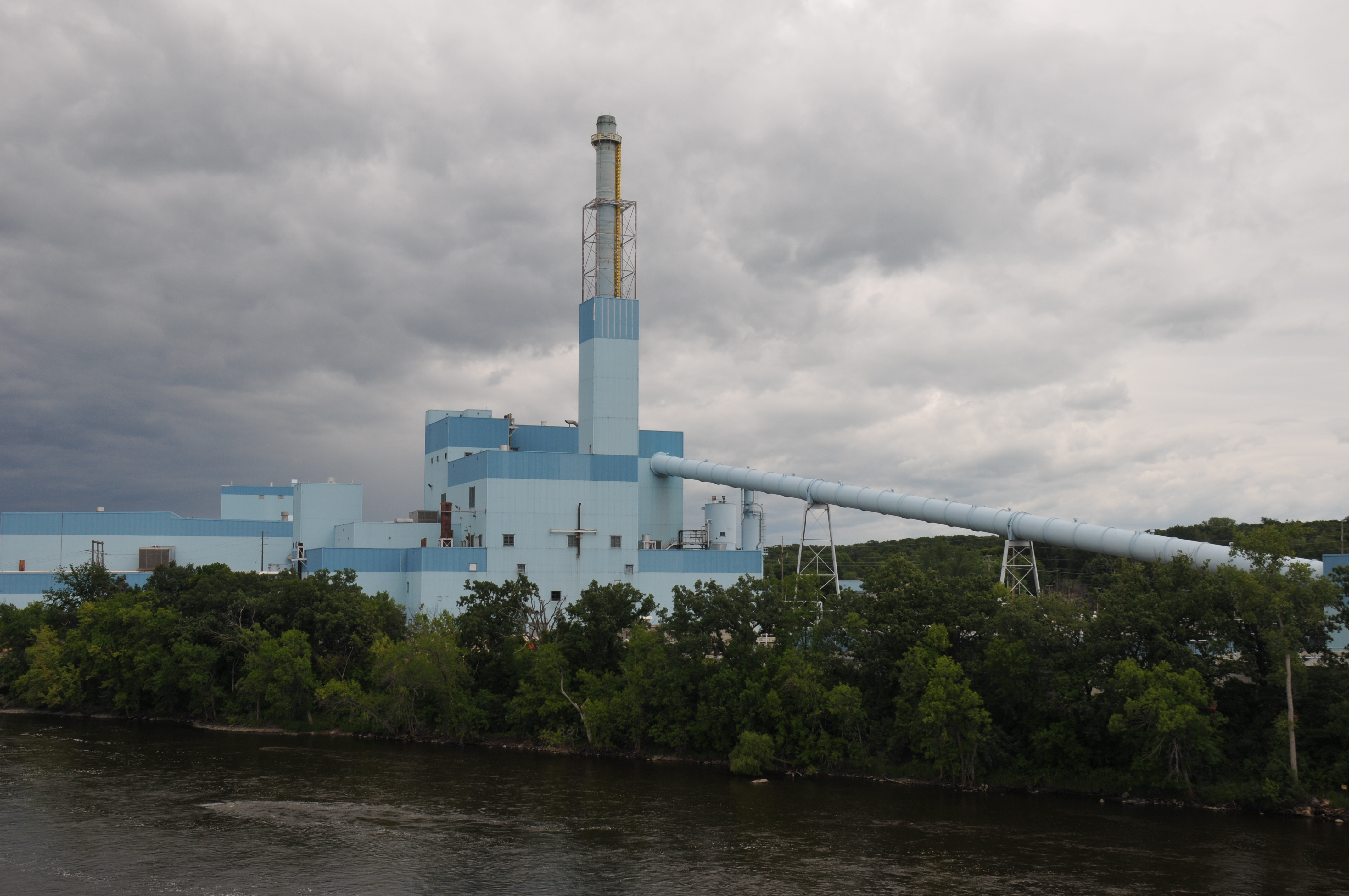 The Sartell Paper Mill in Sartell, Minnesota, then abandoned and awaiting demolition.